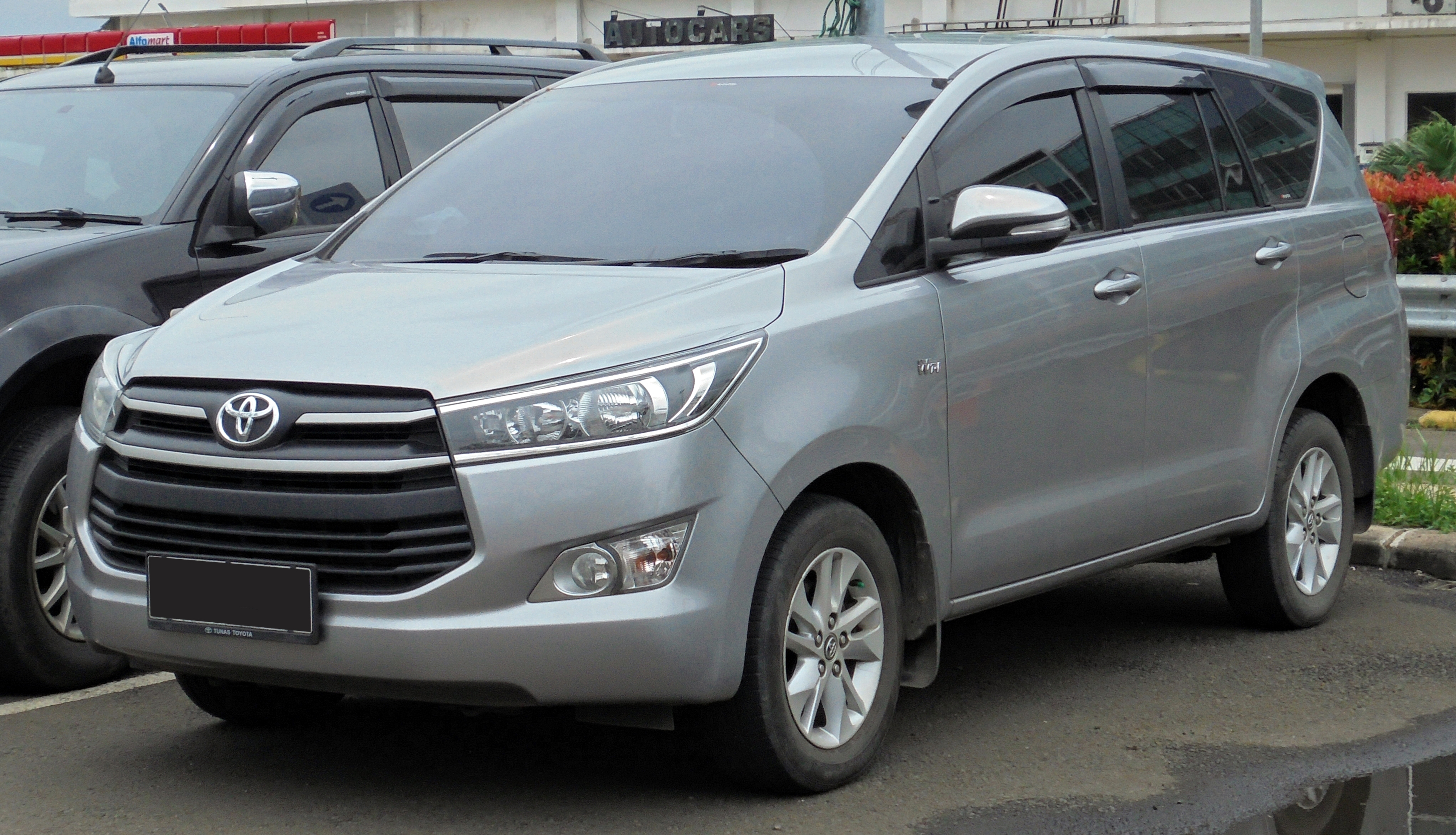 2017 Toyota Kijang Innova 2.0 G wagon (TGN140R) photographed in South Tangerang, Banten, Indonesia.